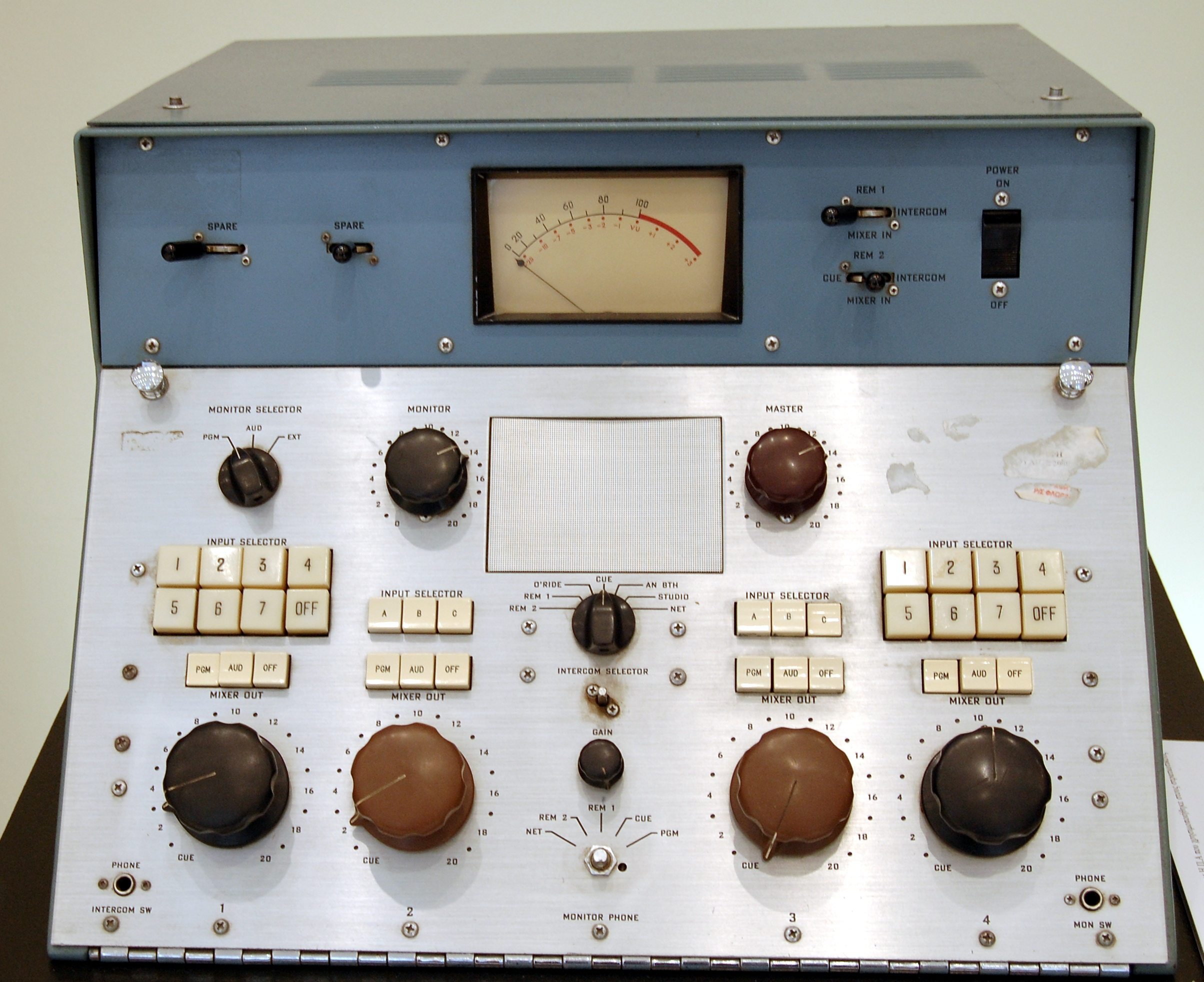 An RCA analog broadcast audio console